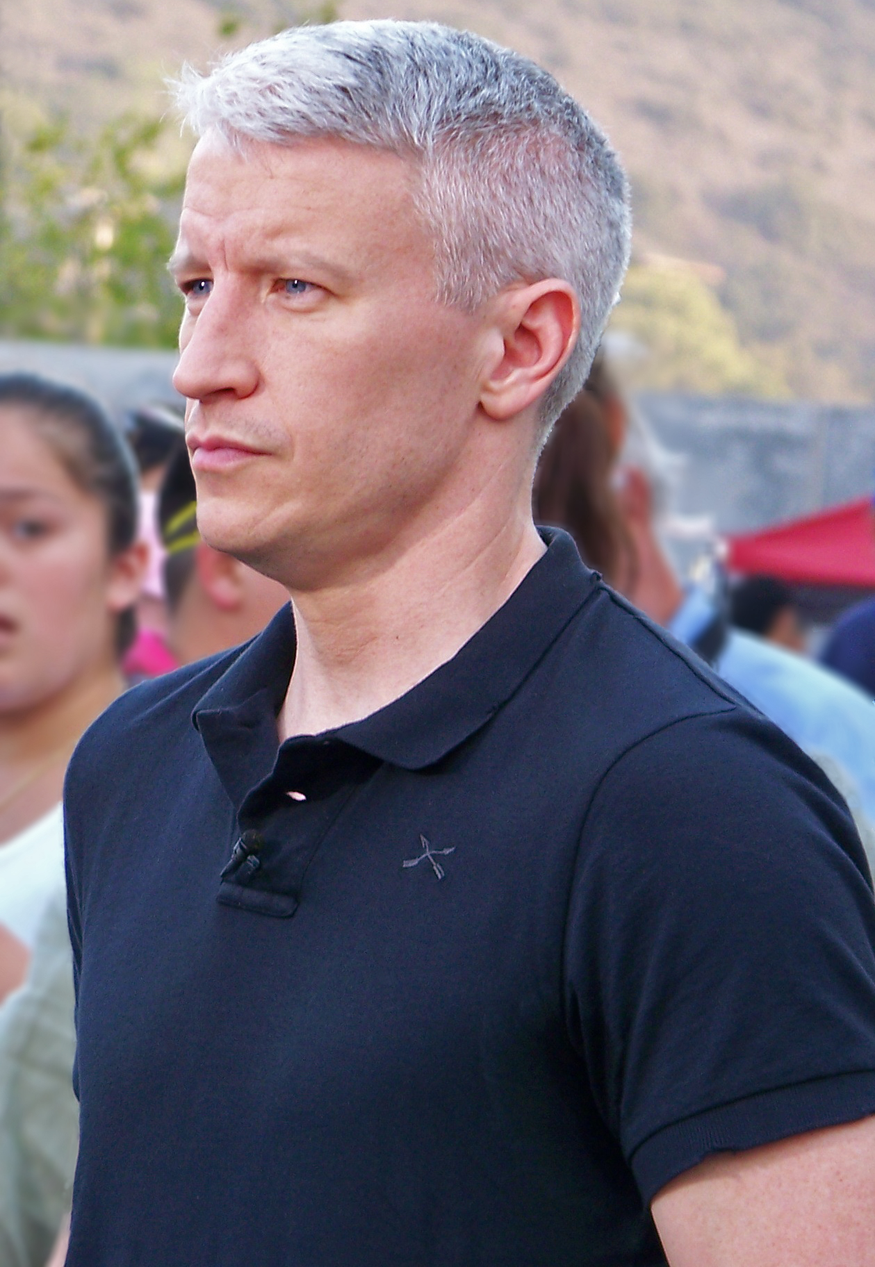 Anderson Cooper at Qualcomm Stadium during the California wildfires of October 2007